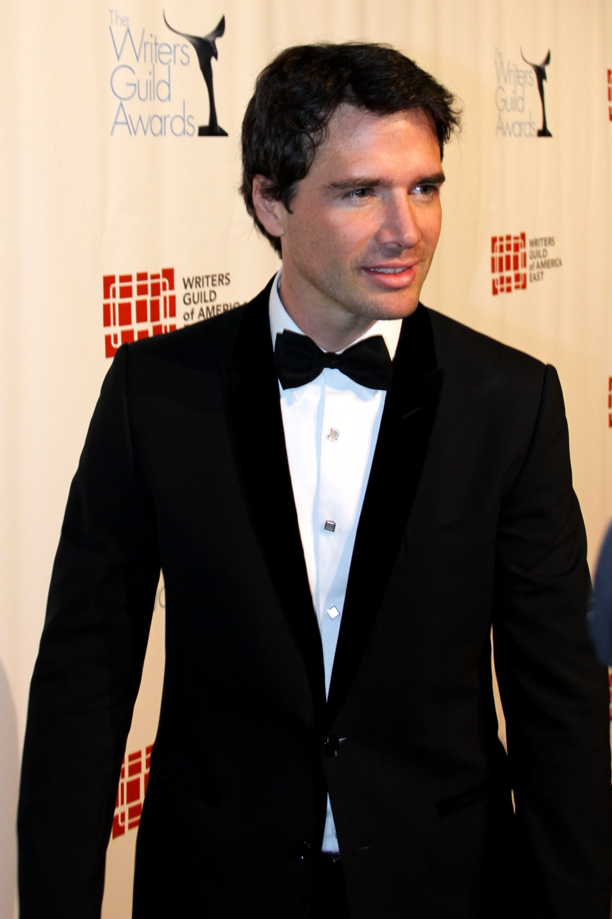 Matthew Settle at the Writers Guild Awards East 2011.